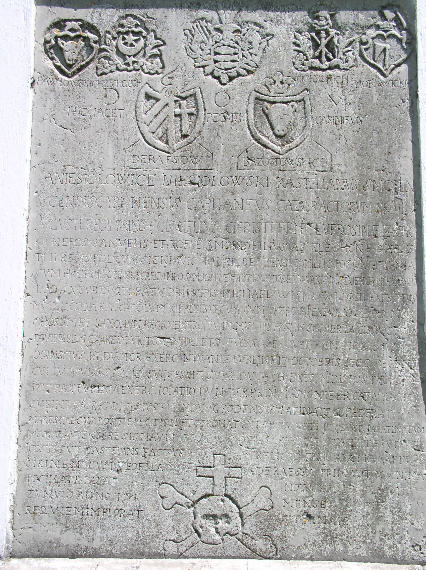 Genealogy of Nesialowski family on altar wall of church of Saint Anne. Varoncha, Belarus.